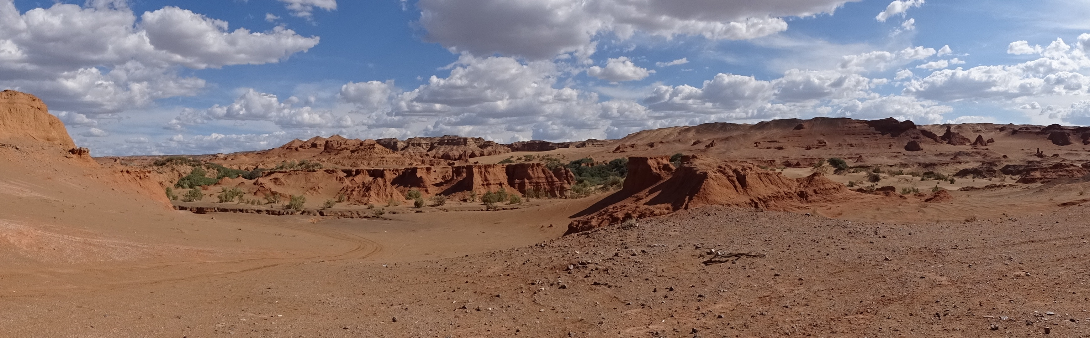 National Park Gobi Gurvansaikhan - formations in the Kermen Tsav